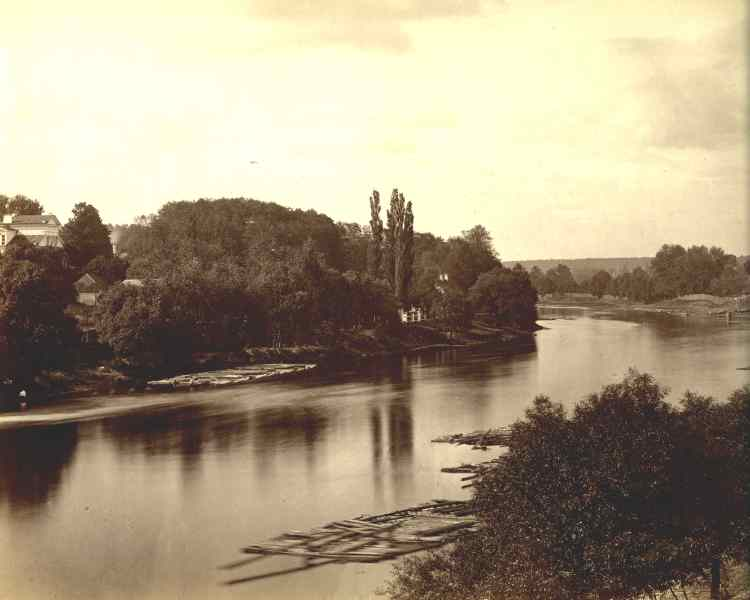 Tuskulėnai Lithuania 1873-1881